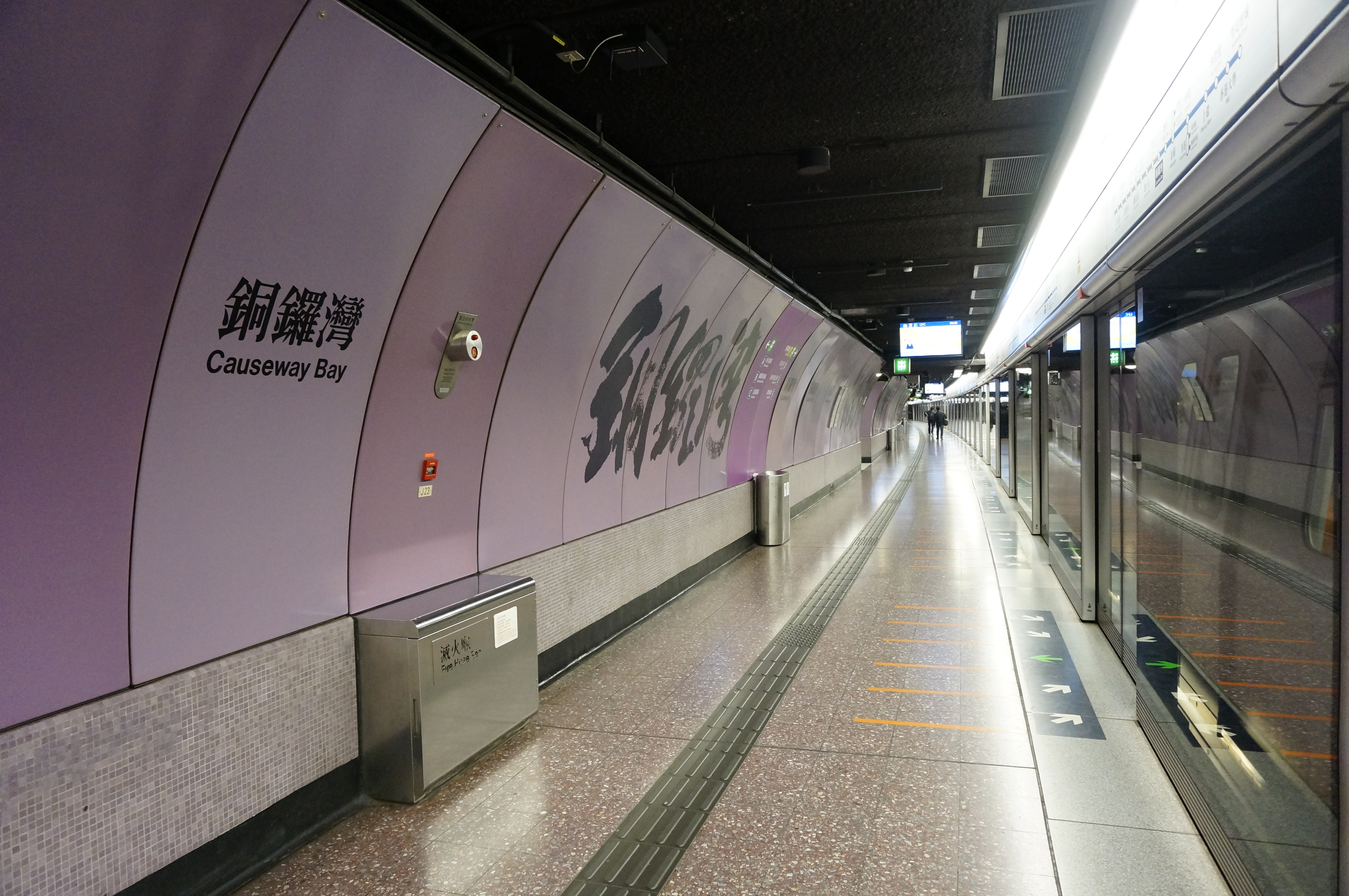 MTR Causeway Bay station platform